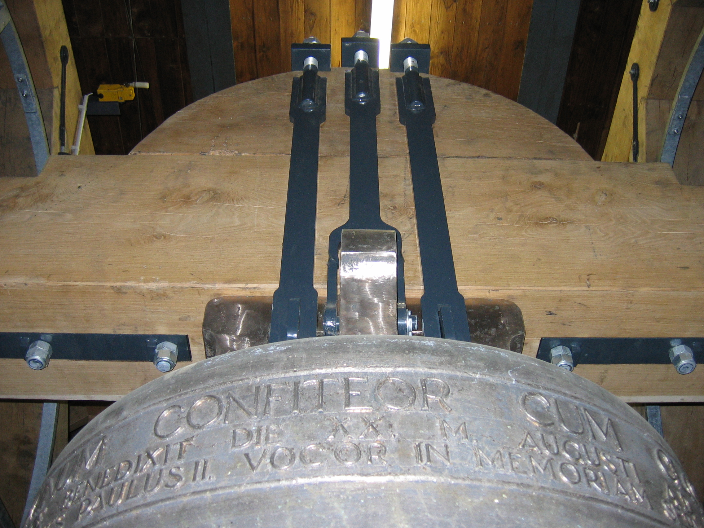 „Pope Bell“ at romanesque church St. Aposteln (Köln)